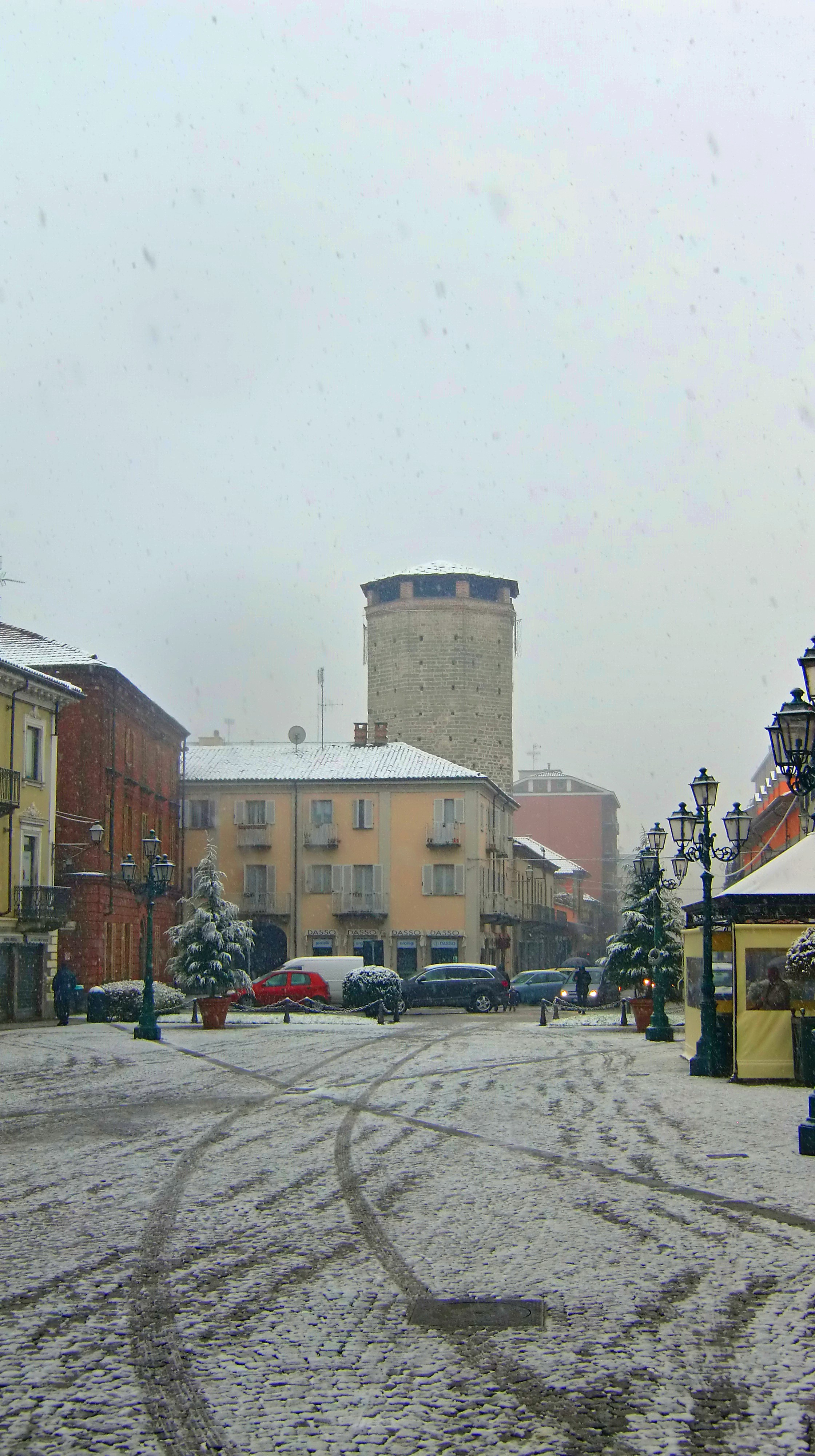 View of Piazza della Repubblica, Chivasso, Italy (with the octagonal stone tower, which belonged to the ancient castle)